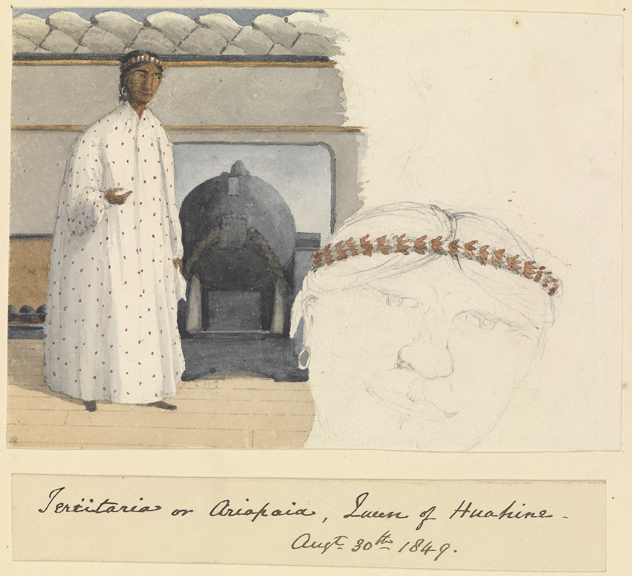 Two depictions of Queen Teri'itaria II (Teri'i tari'a Ari'i paea Vahine; 1790–1858), monarch of Huahine in the Society Islands (now part of French Polynesia) from 1815 to 18 March 1852 during the Teurura'i dynasty. She is shown standing next to a 32-pounder gun on the upper deck of the H.M.S. Daphne, which she visited to lunch with Fanshawe on 30 August 1849 during his diplomatic visit to Huahine from 28 to 30 August. The drawing was numbered 18 in Fanshawe's Pacific album (produced when he served on the Daphne, 1849–1852).